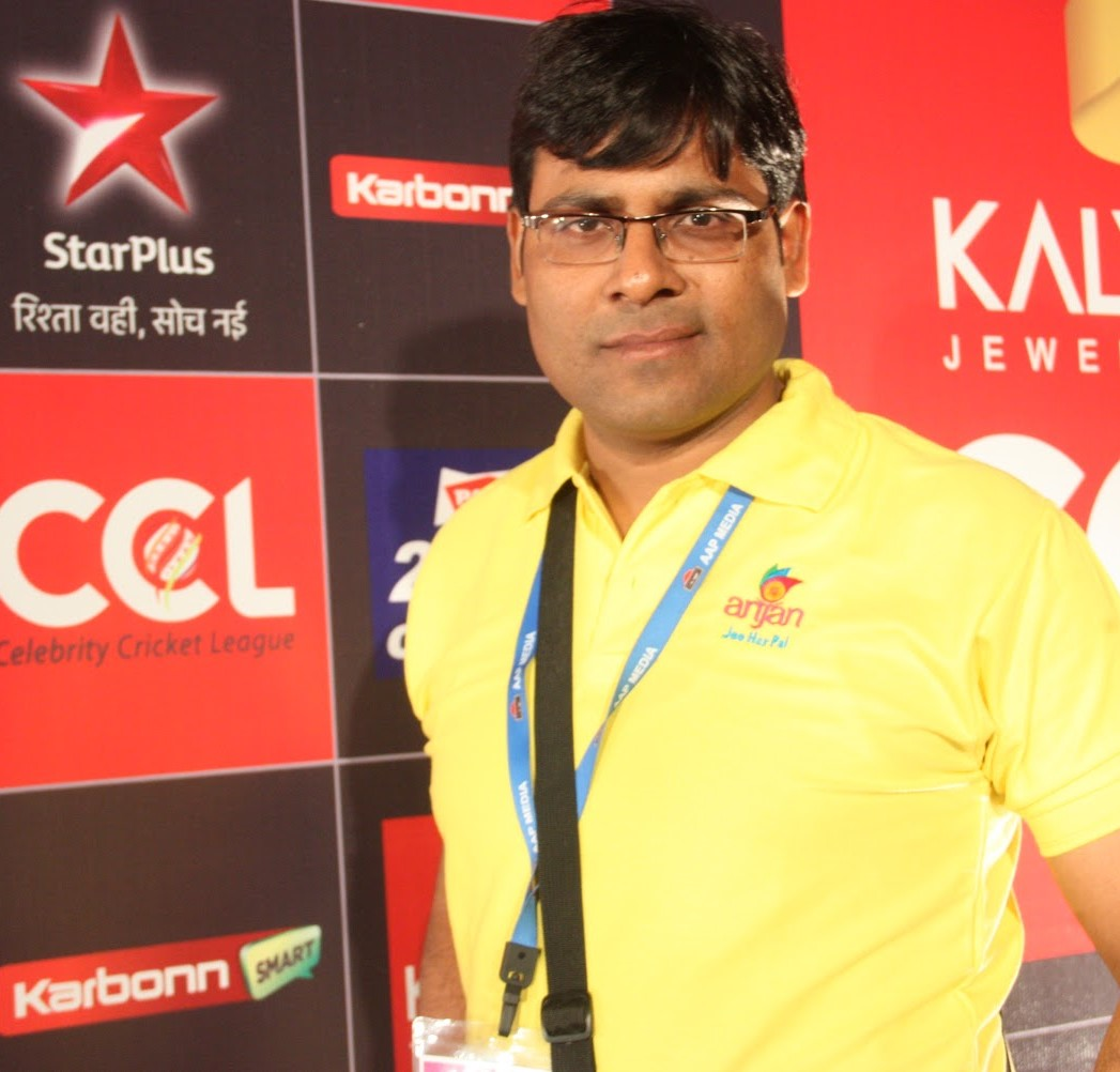 Manoj Bhawuk as host at CCL